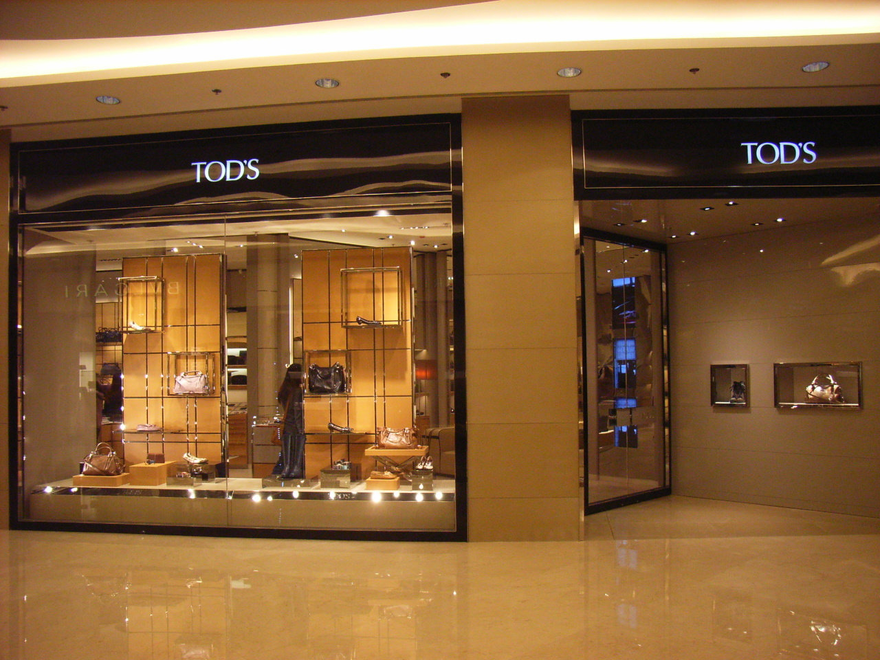 西九龍Union Square圓方商場 Tod's shop